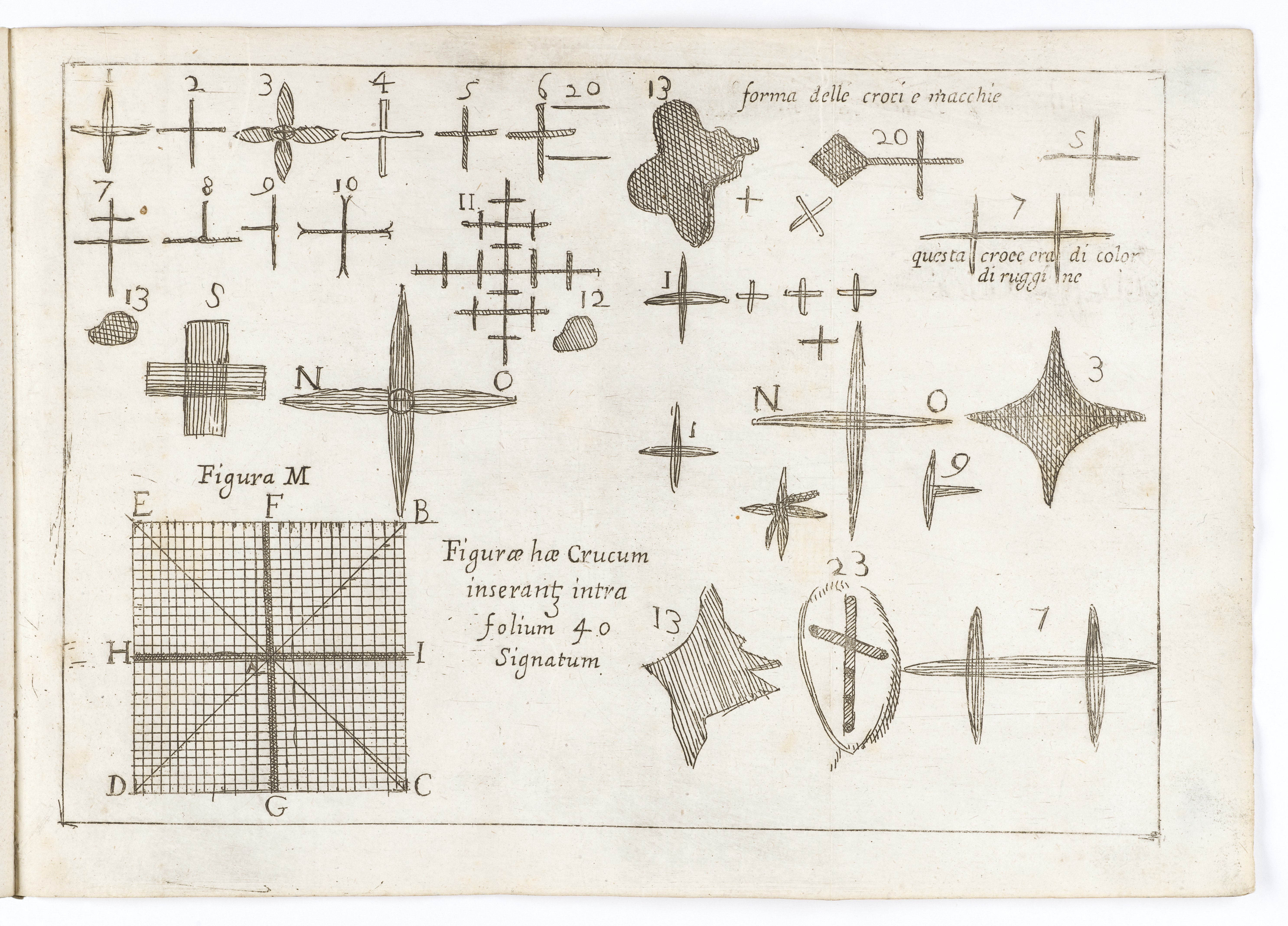 Fold-out plate from Athanasii Kircheri Soc. Iesv. Diatribe showing crosses Rare Books Keywords: Religion; Natural Disasters; Disasters; Volcanic Eruptions